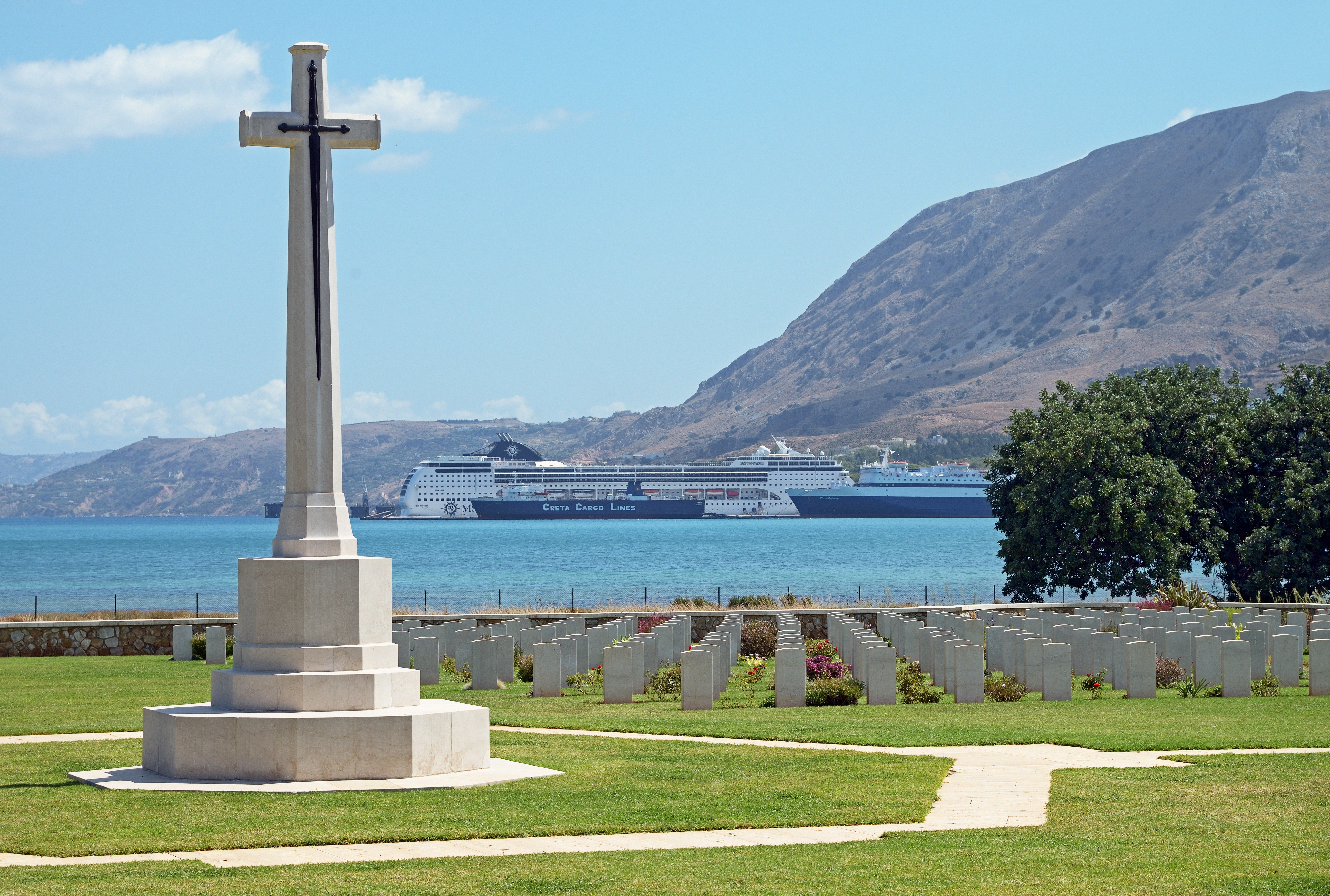 Souda Bay War Cemetery, Crete. Greece